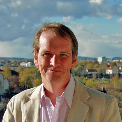 Professor Clive L. Spash in 2010